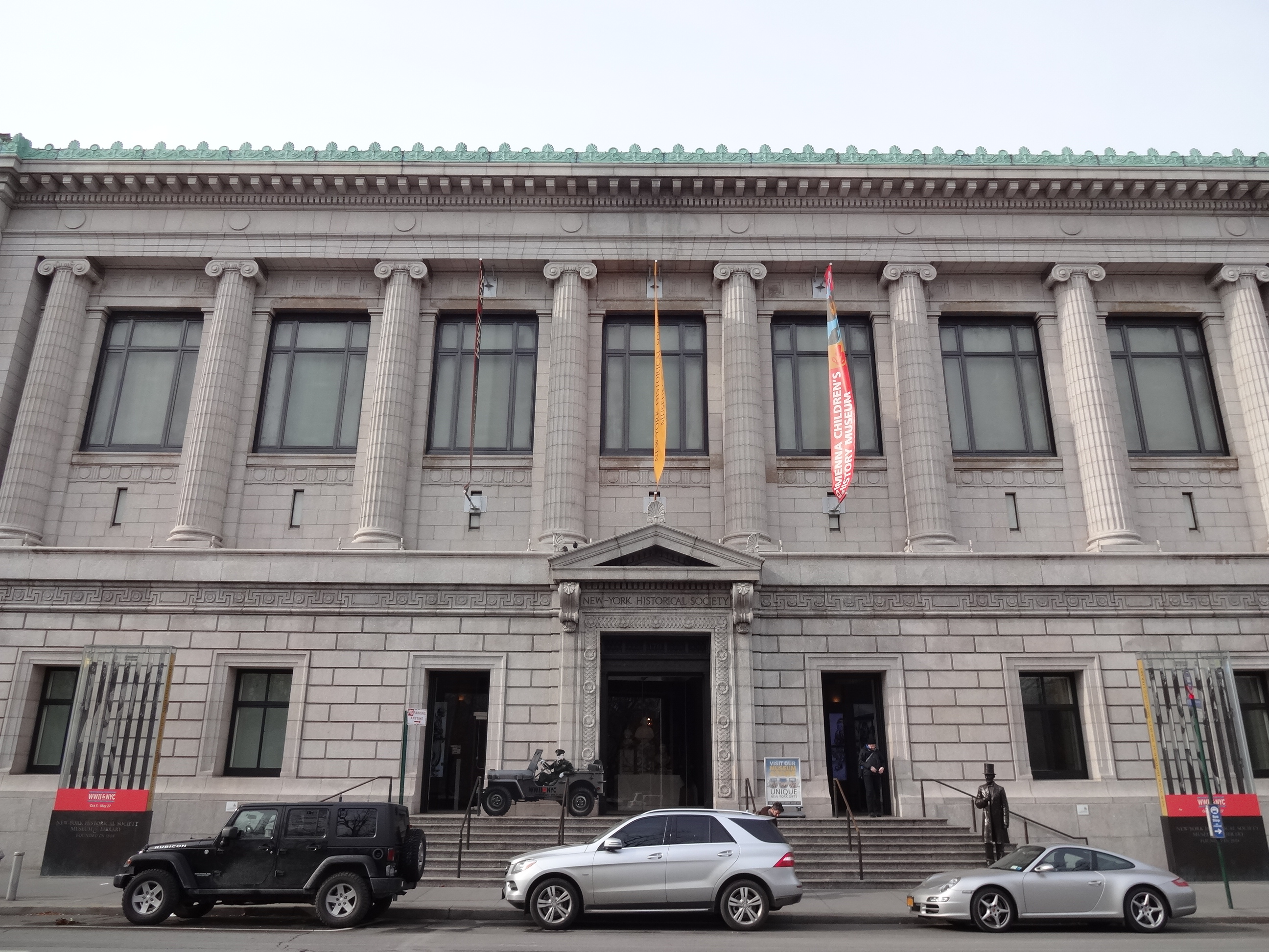 New-York Historical Society